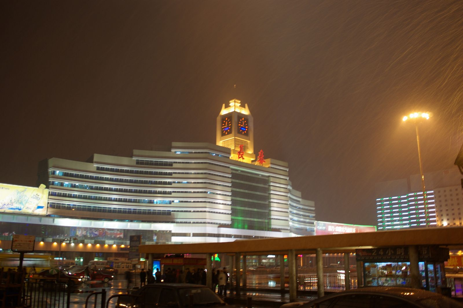 Changchun Railway Station